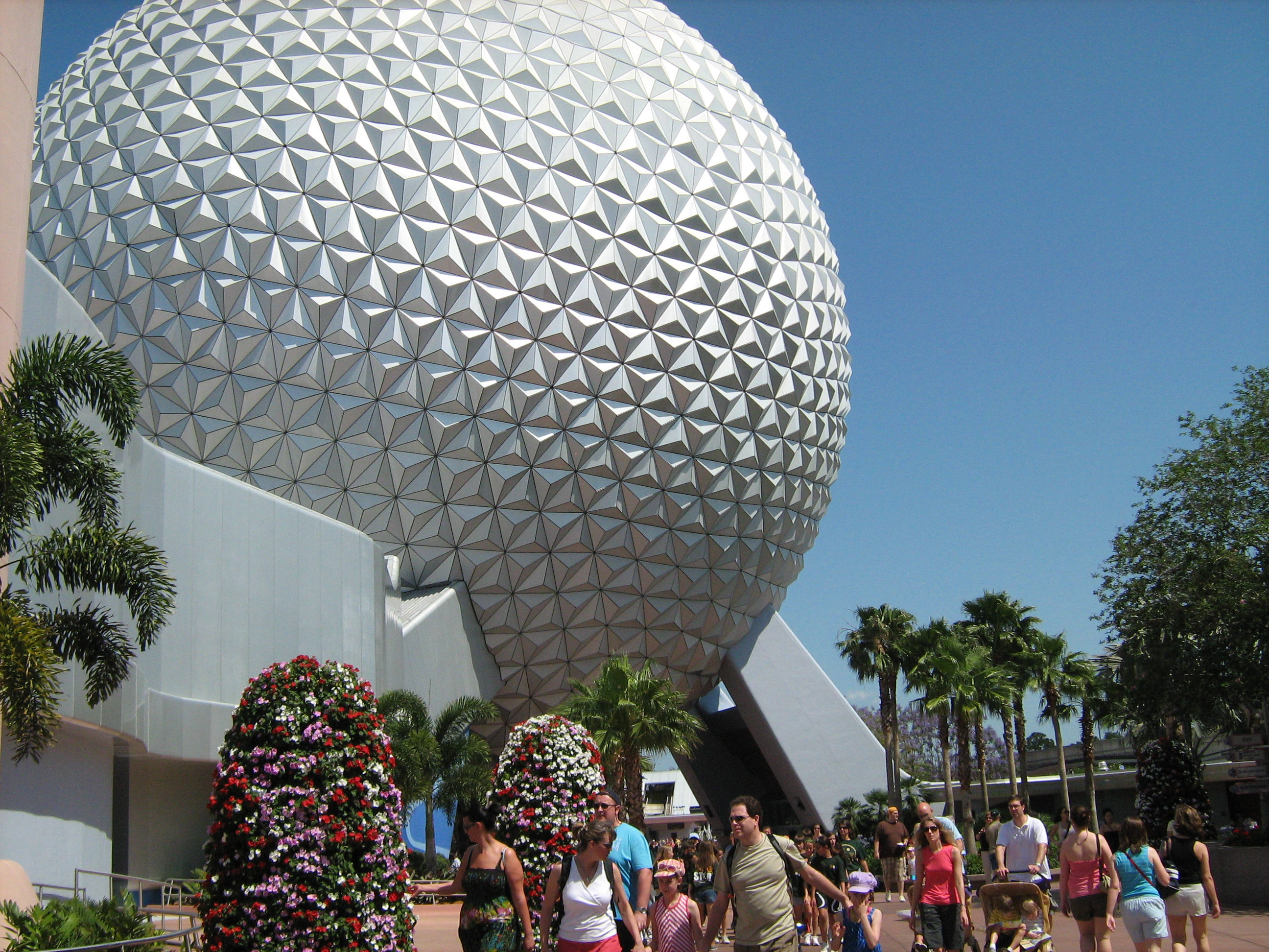 I went to Disney World on may 3 so thats my image.